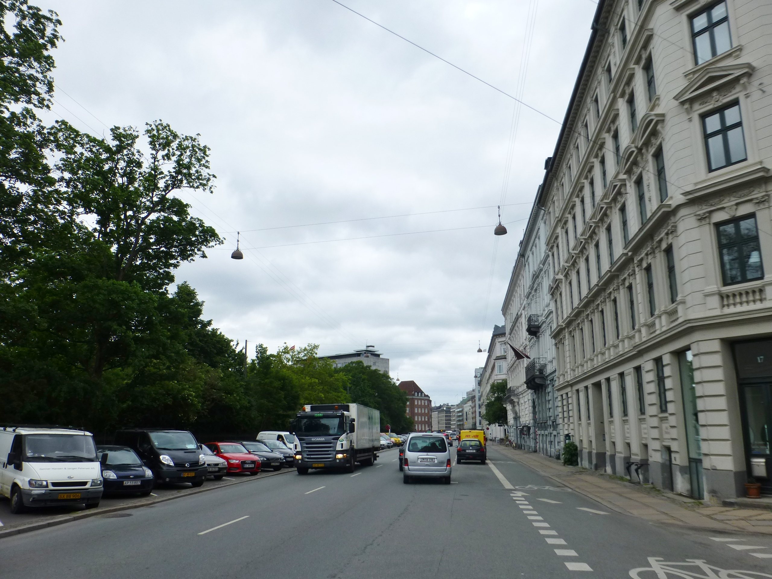 The street Nørre Farimagsgade at Schacksgade in Indre By in Copenhagen.